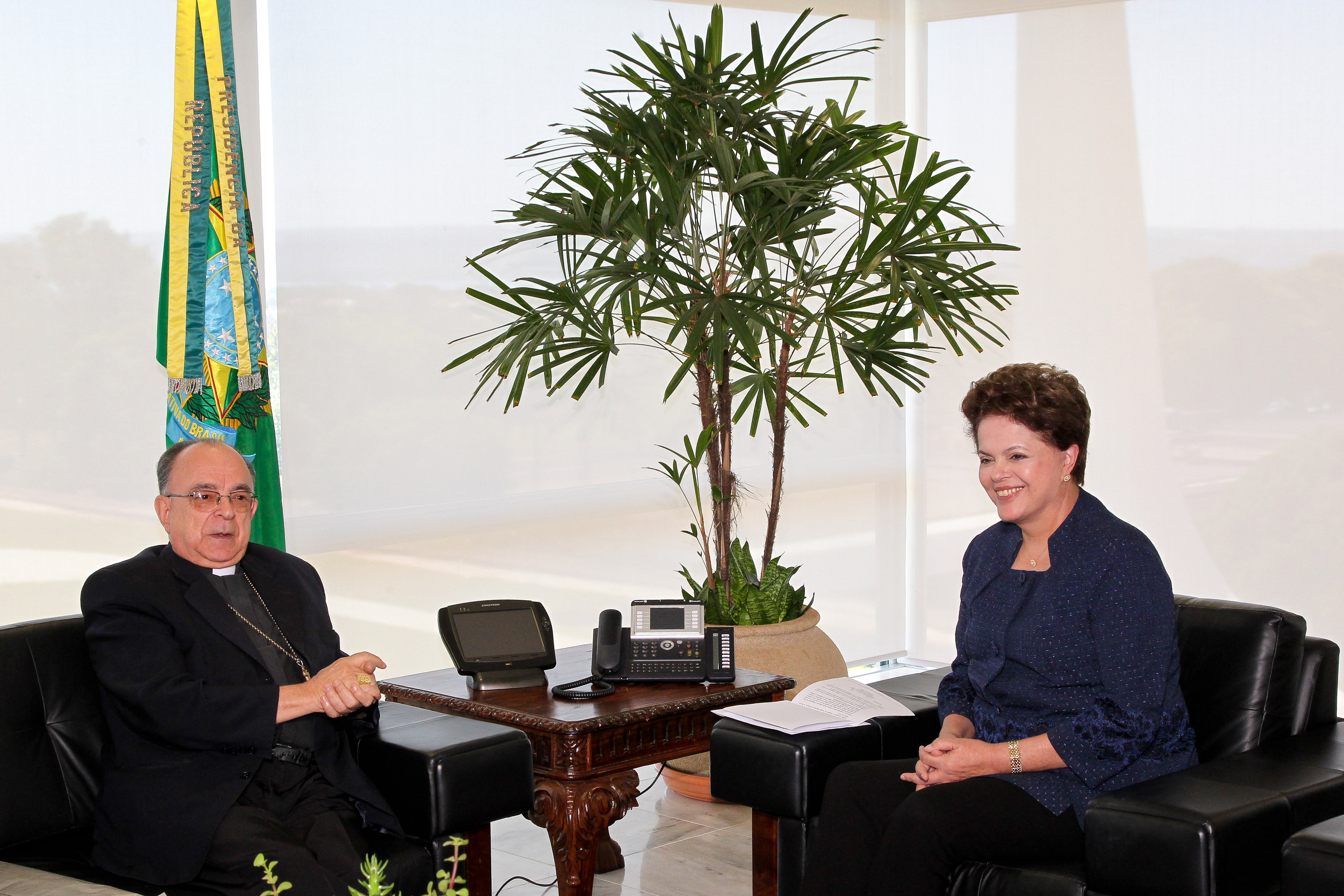 Brasília-DF, 12/08/2011. Presidenta Dilma Rousseff recebe Dom Raymundo Damasceno Assis Presidente da Conferência Nacional dos Bispos do Brasil (CNBB). Foto: Roberto Stuckert Filho/PR.